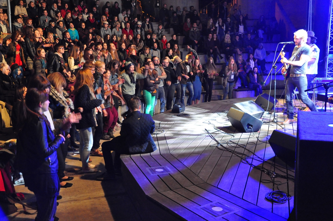 Matthew Houck with his band Phosphorescent at the concert at Halfway Festival 2014 in Białystok, Poland.